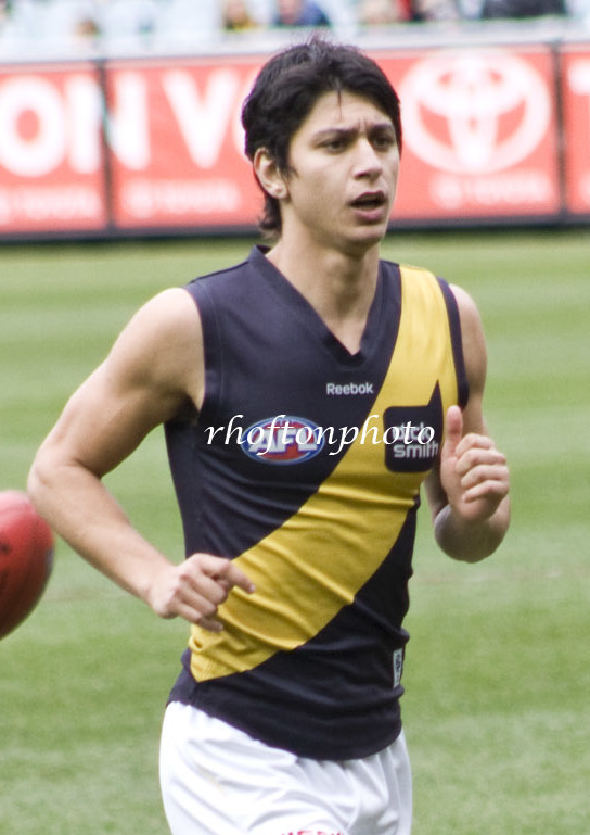 Robin Nahas prior to Richmond's game against Melbourne on August 2 2009